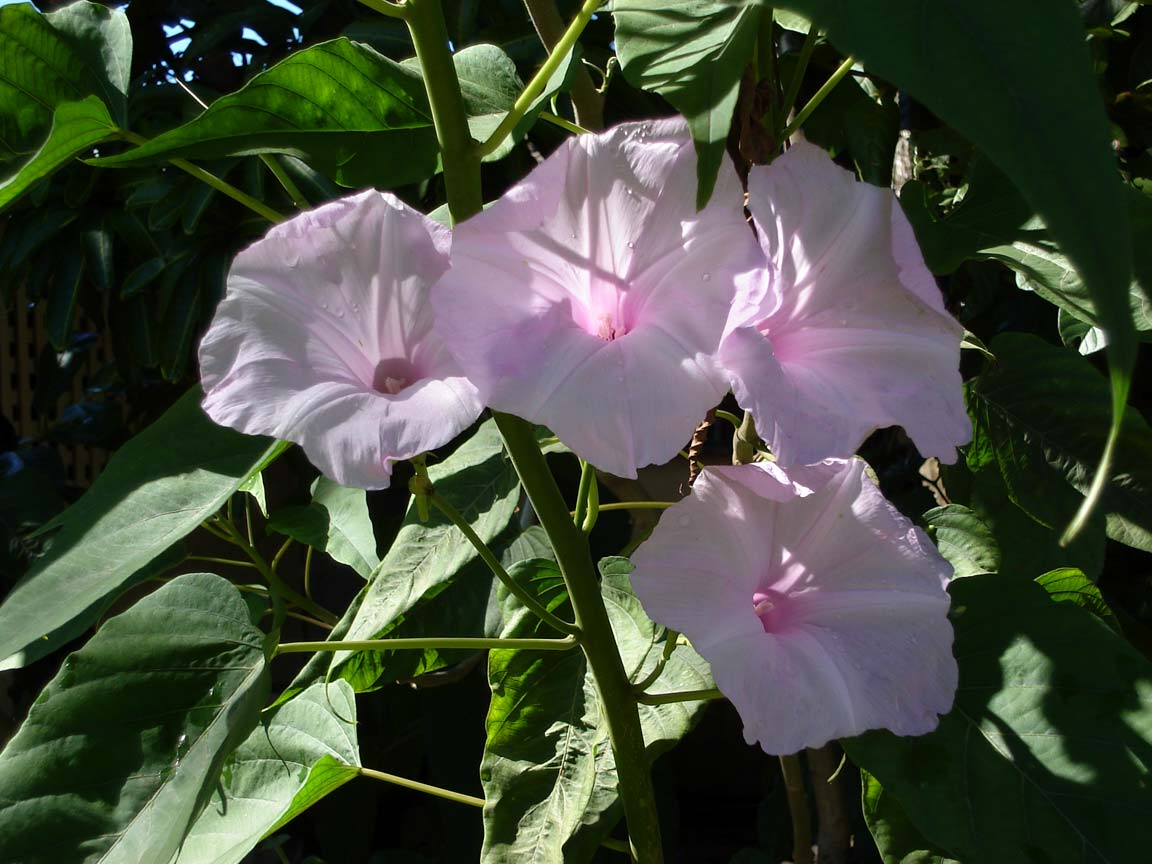 Ipomoea carnea, Bush morningglory. Note the narrow leaves. In a garden in Tonga